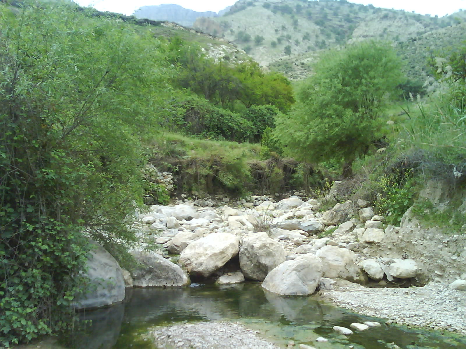 Nimdoor village